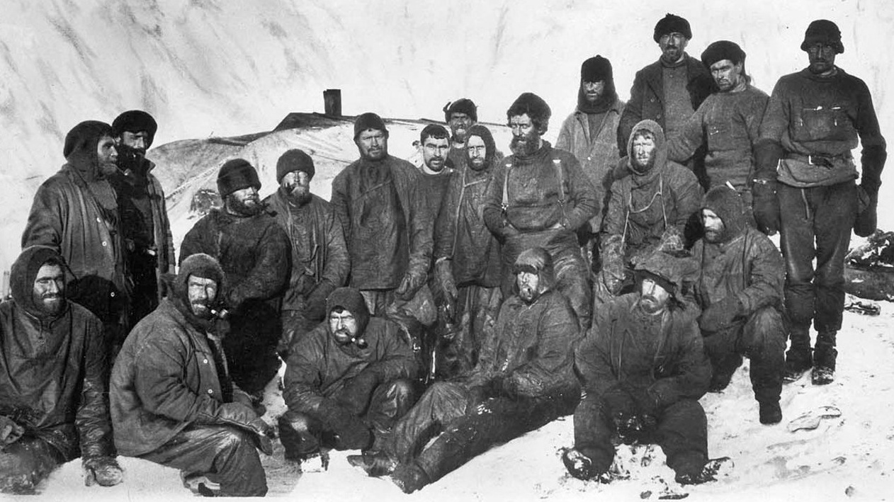 Thomas Orde-Lees